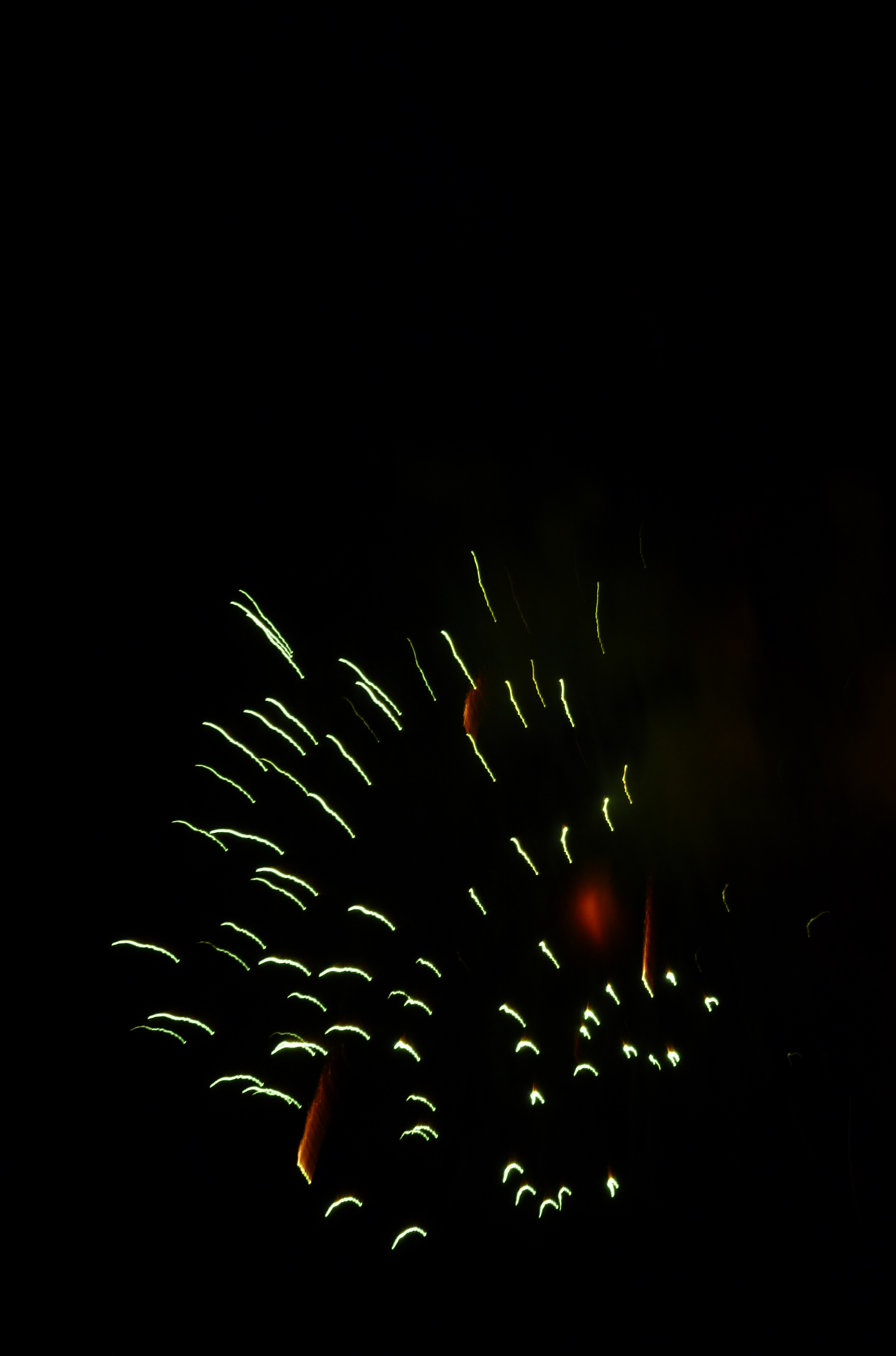 it is a picture of a green firework while I was at Disney world